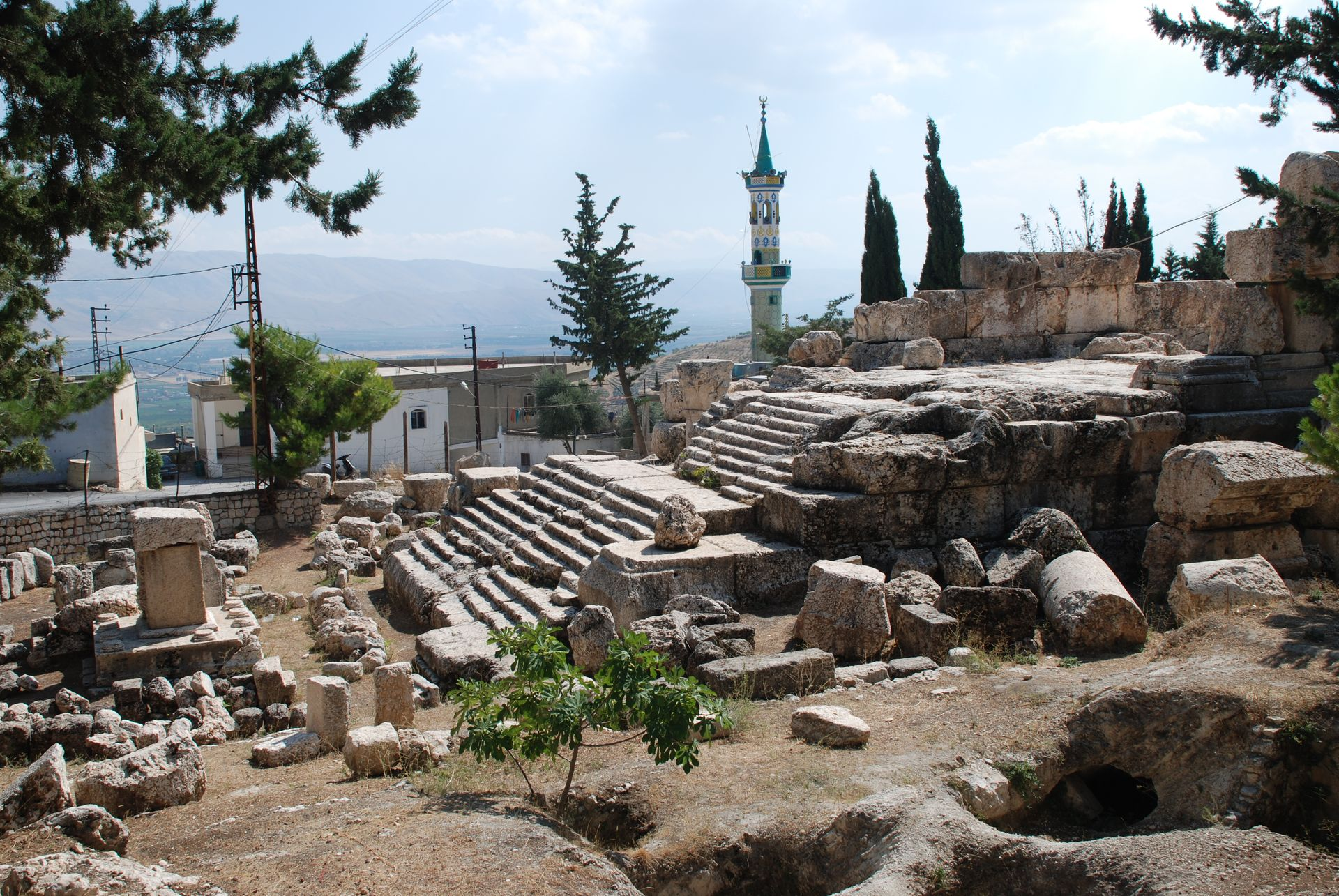 Qsarnaba, near Zahlé, Lebanon, roman temple from north